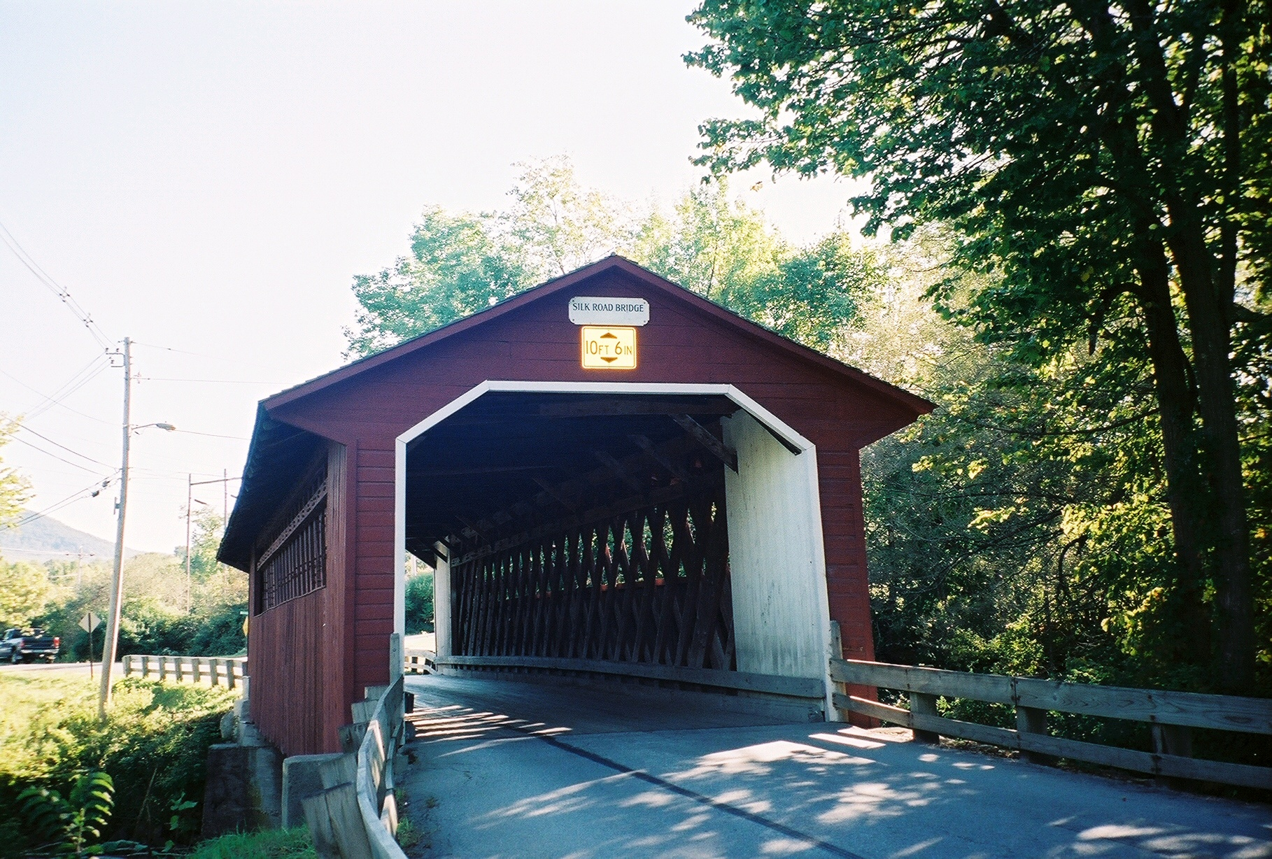 Silk Covered Bridge, northwest of Bennington, VT